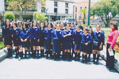 Class of shoolgirls in Equador